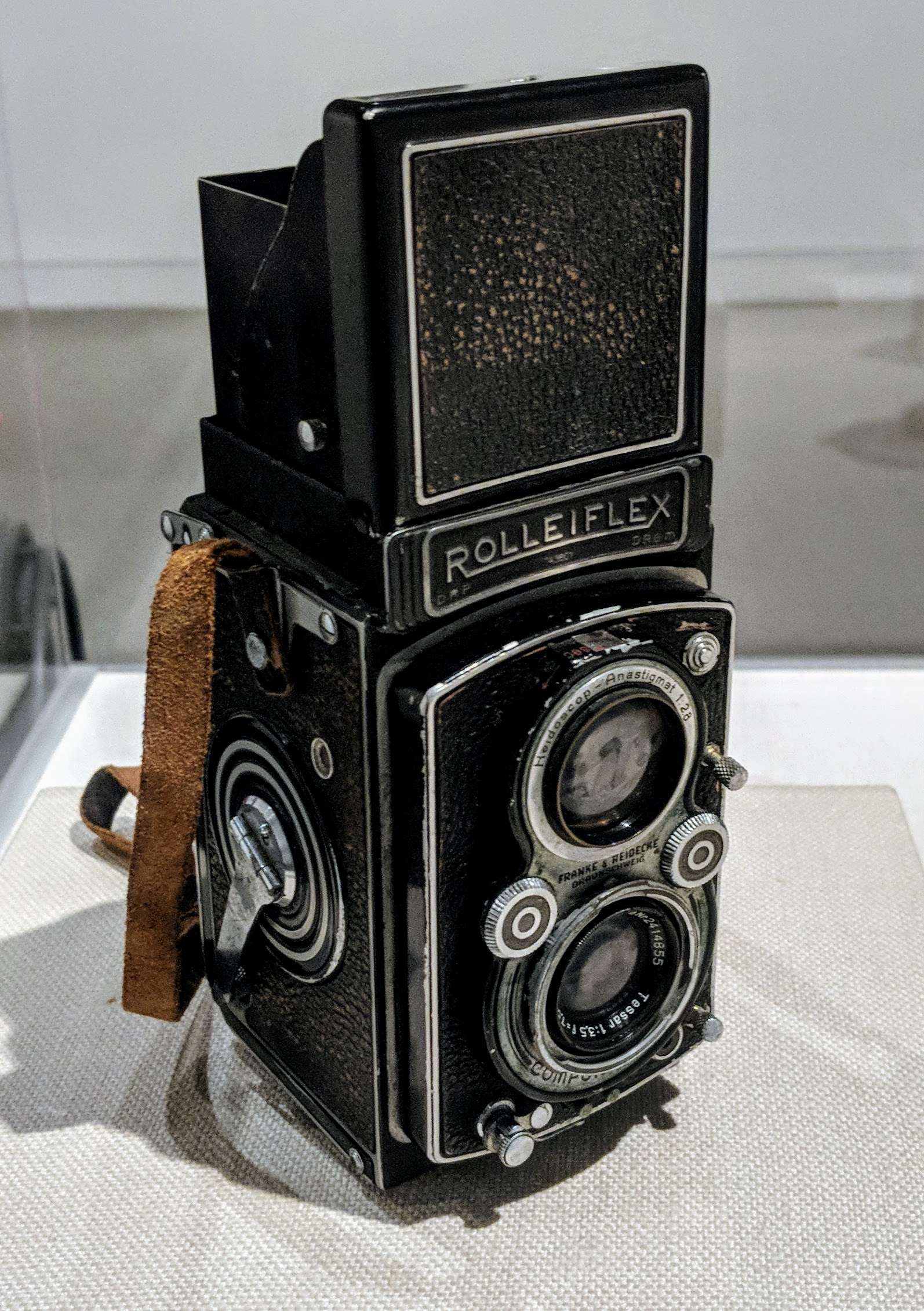 A Rolleiflex camera owned by Imogen Cunningham, on display at the Oakland Museum of California. Photo by Jim Heaphy.